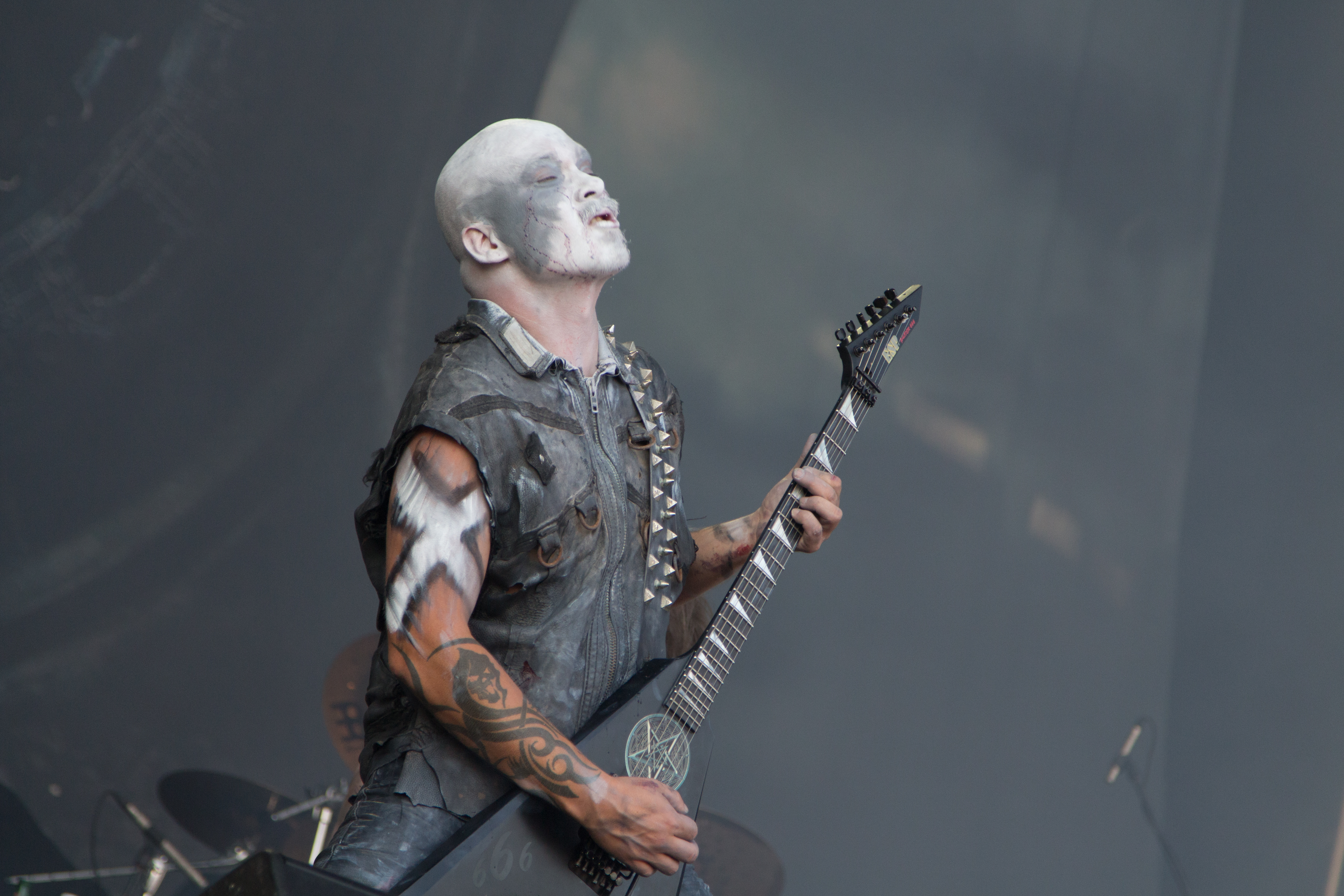 Thomas Rune "Galder“ Andersen from Dimmu Borgir at the See-Rock Festival 2014